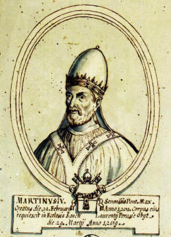 Portrait of pope Martin IV